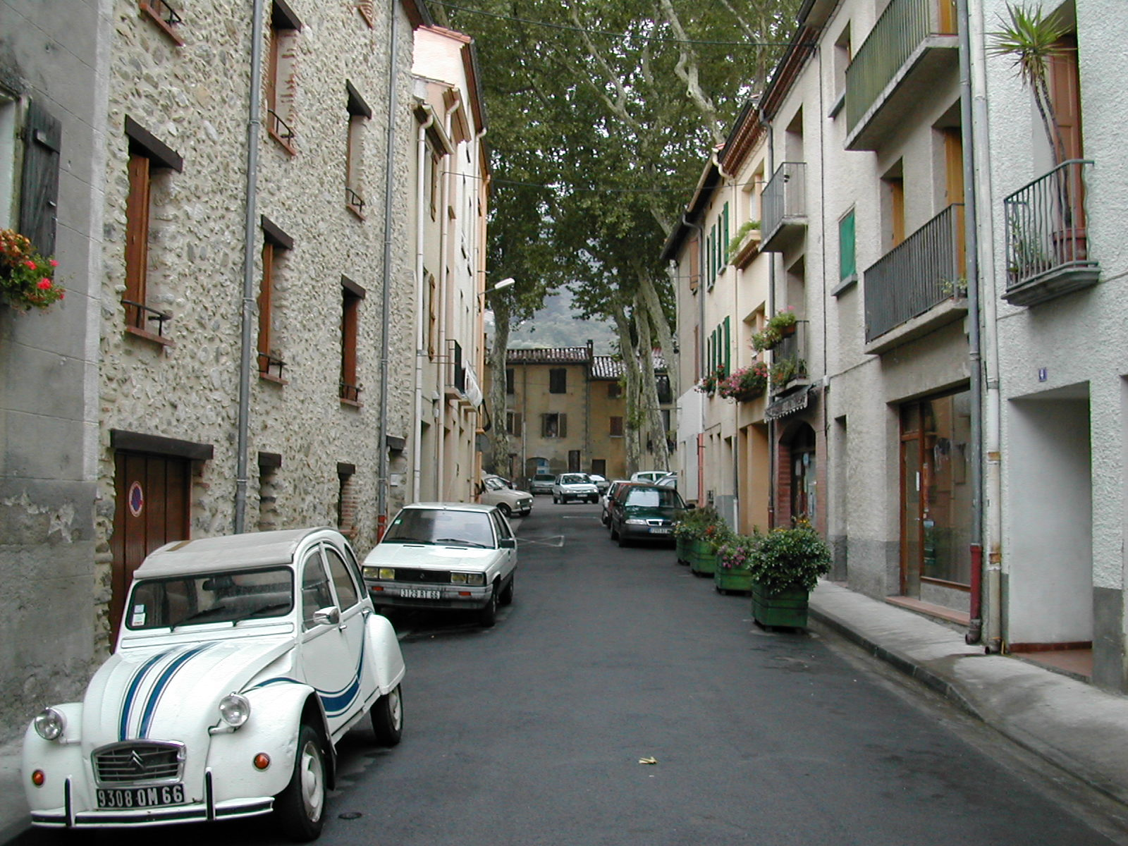 A street of Céret (Pyrénées-Orientales, France).